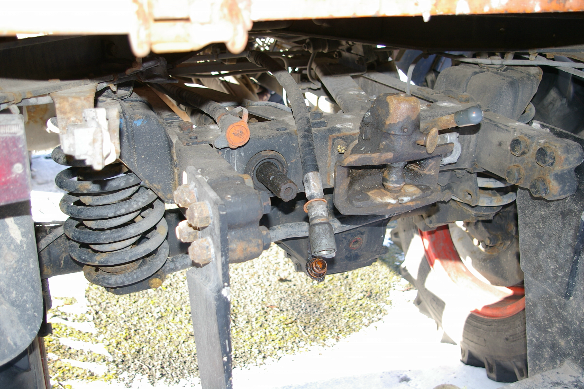 Rear crossbar with PTO (Power Take-Off), hydraulic connectors and coupling of a Unimog 421, built in 1980